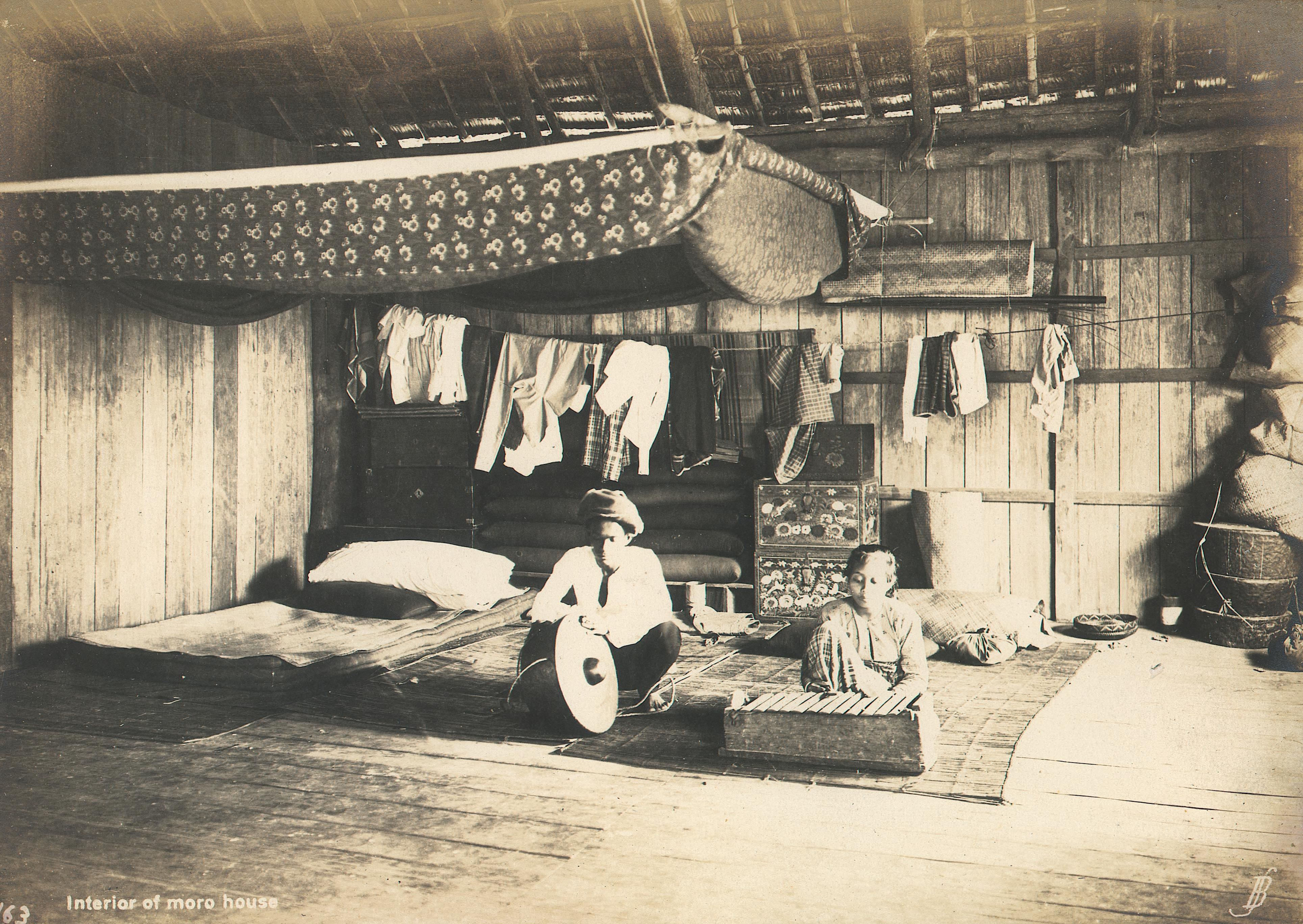 Interior of a Moro house